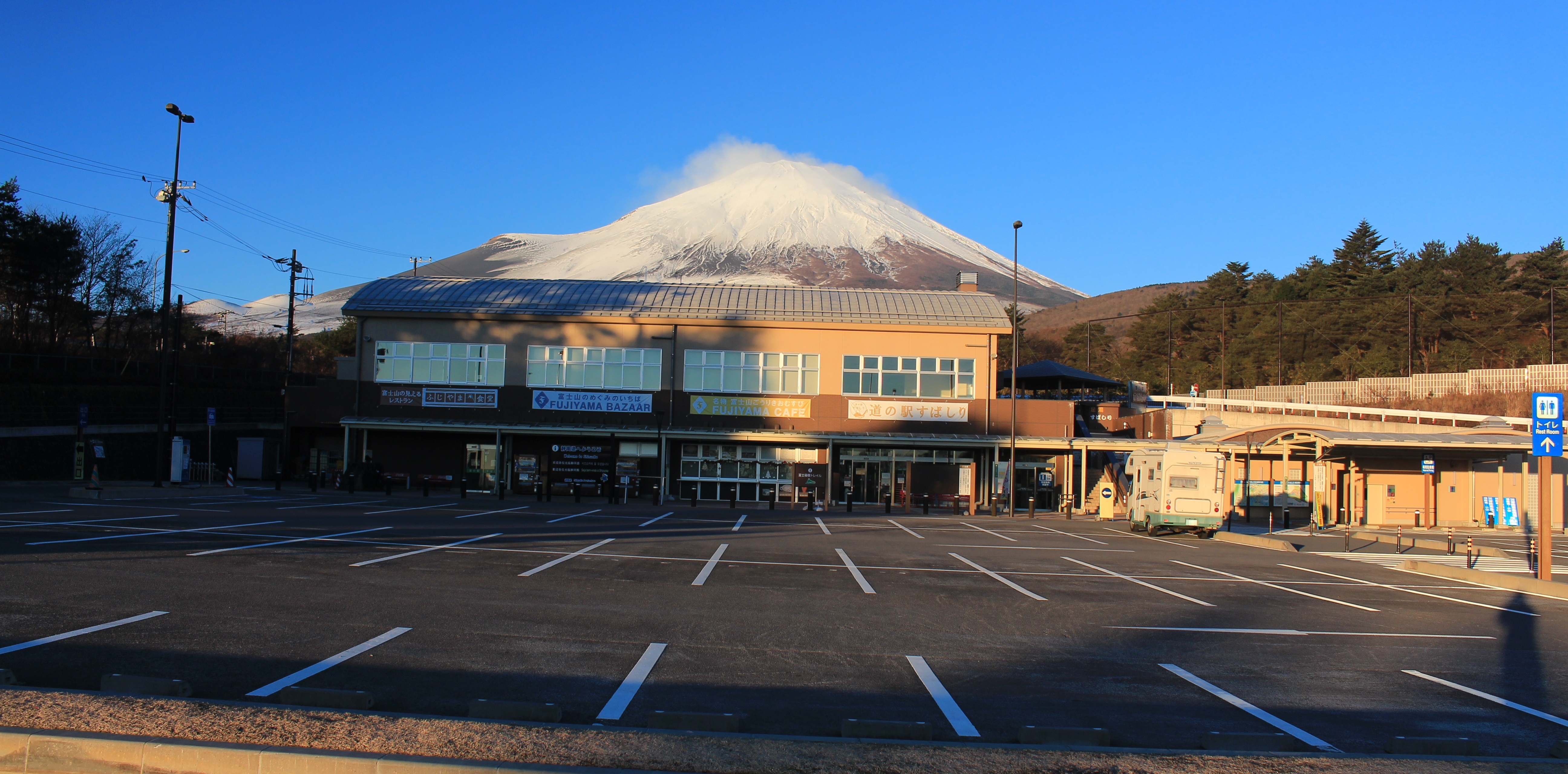 Michinoeki Subashiri and Mount Fuji in Oyama, Shizuoka prefecture, Japan.